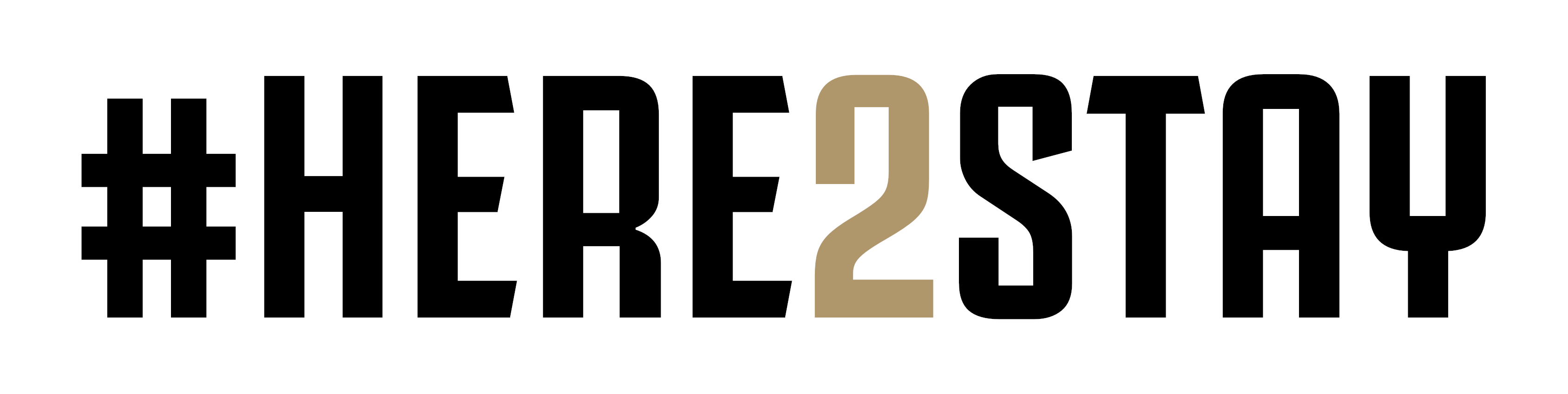 Hashtag #HERE2STAY for the 2nd Italian Women's Serie A title won in-a-row by Juventus F.C. Women in the 2018–19 season.